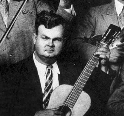 Country musician and guitarist Riley Puckett